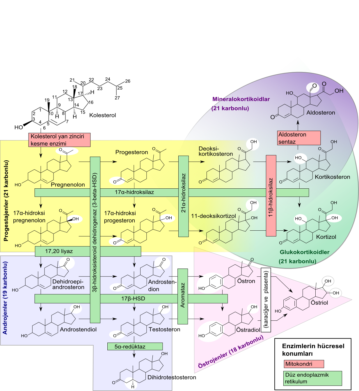 Enzymes, their cellular location, substrates and products in human steroidogenesis. Shown also is the major classes of steroid hormones: progestagens, mineralocorticoids, glucocorticoids, androgens and estrogens. However, they partly overlap, e.g. mineralocorticoids and glucocorticoids. Where stereochemistry is not shown, it is the same as for cholesterol or for any functional groups shown for the first time. HSD: Hydroxysteroid dehydrogenase References: *Walter F. Boron, Emile L. Boulpaep (2003) Medical Physiology: A Cellular And Molecular Approach, Elsevier/Saunders, pp. page 1,300 ISBN: 1-4160-2328-3.